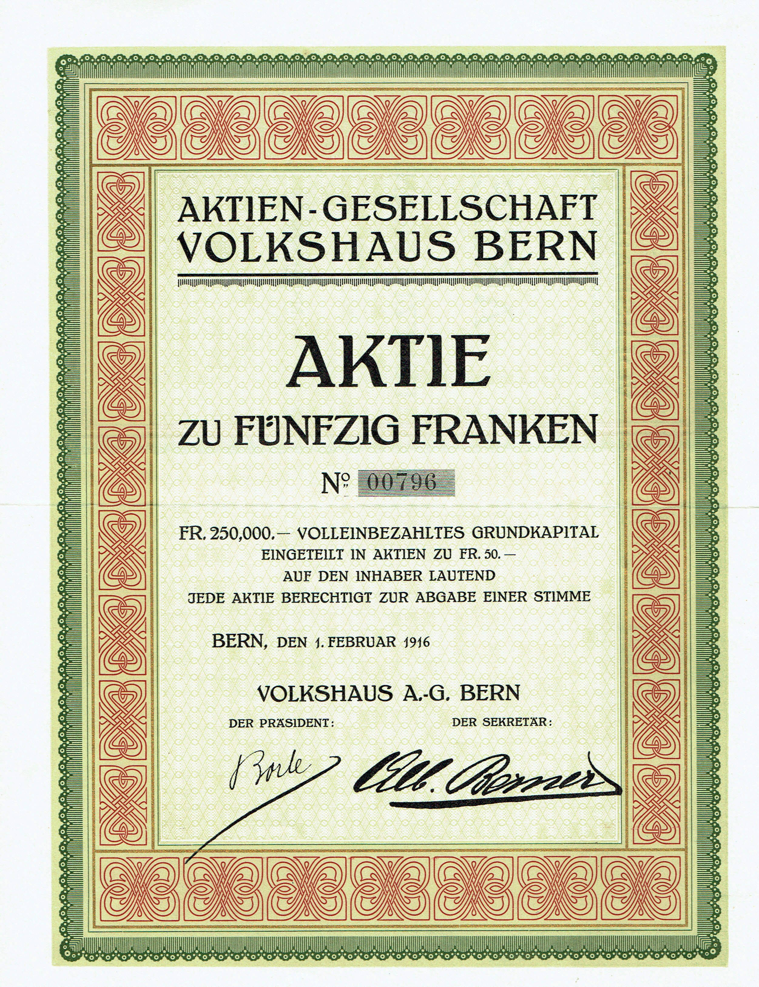 Share of the AG Volkshaus Bern, issued 1. February 1916